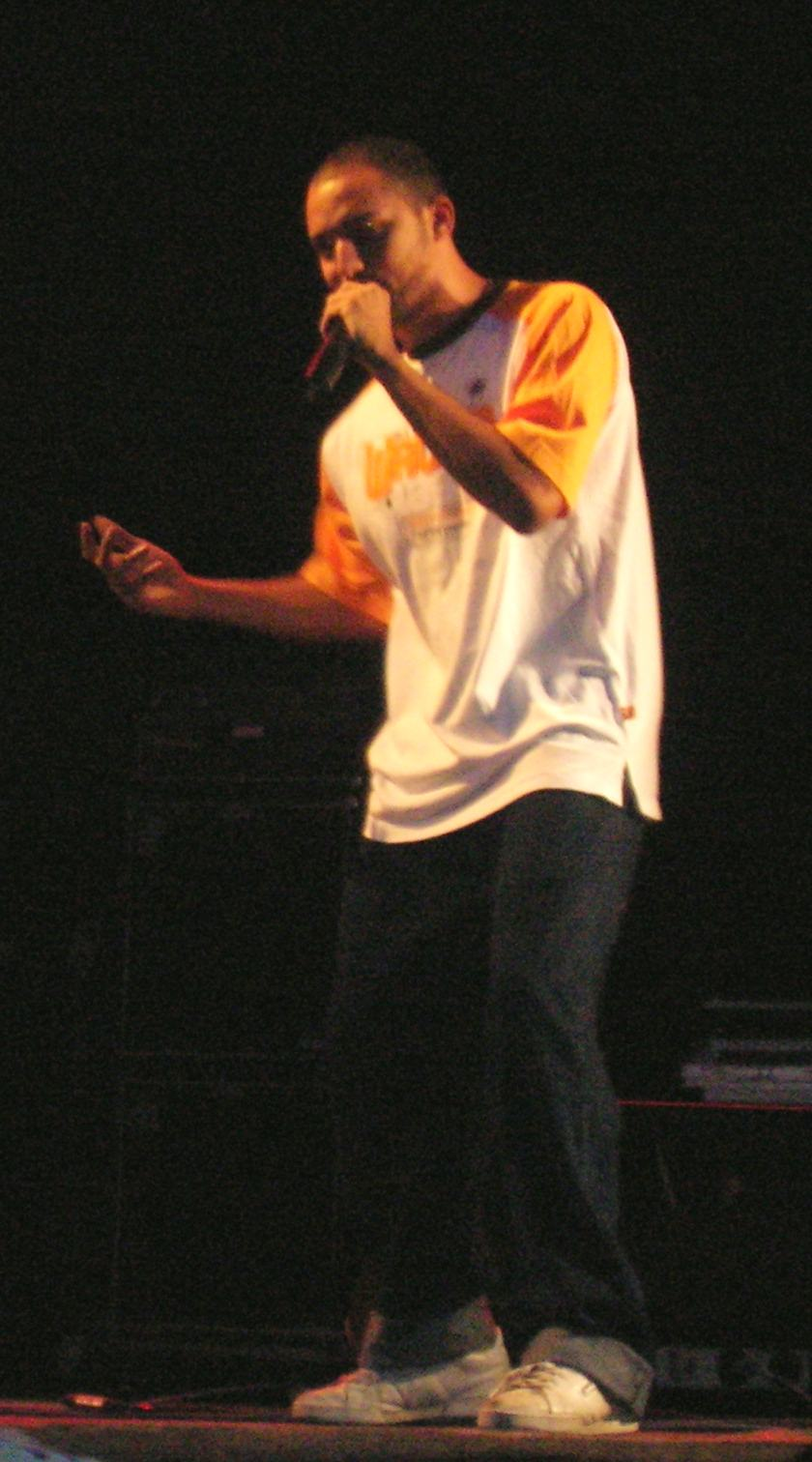 Hazhe takes the mic while acting live with Rapsusklei at the Bilbao Urban Musikaldia, at Vista Alegre bullring.